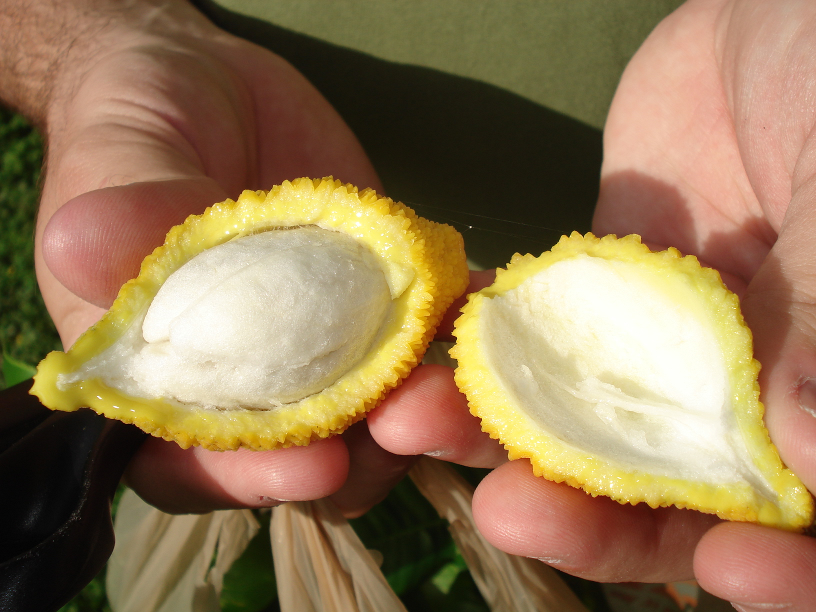 Garcinia madruno. Picture was taken by Chris Hind at Bill Whitman's house in Miami Beach